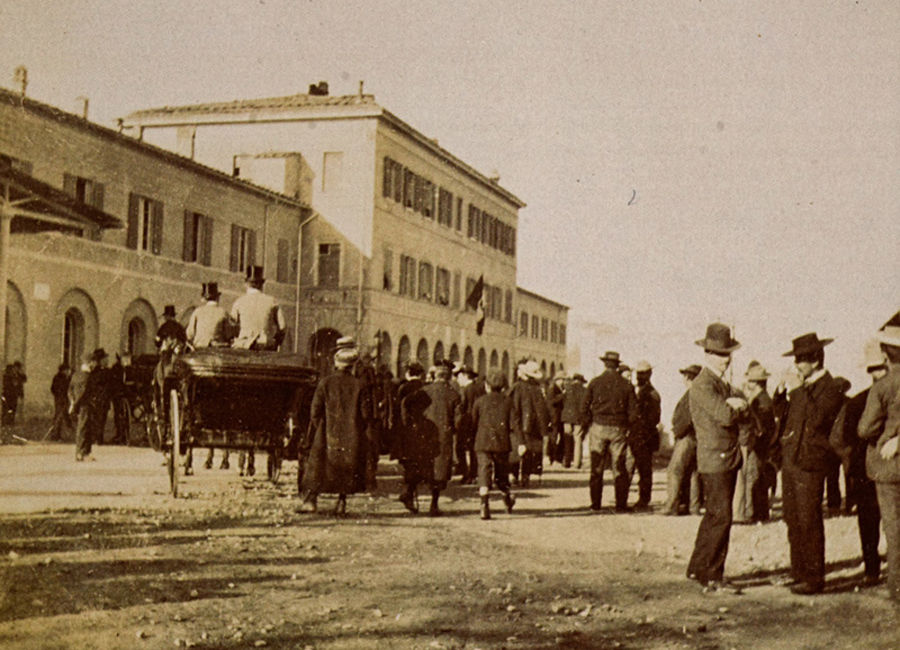 Siena old train station, second half 1800